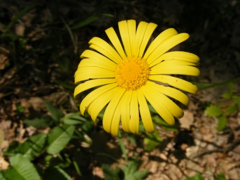 Free Photos – Wild Marigold – Calendula Arvensis More Photos and Full Size Up to 3072 x 2304 pixels Information Regarding Copyright